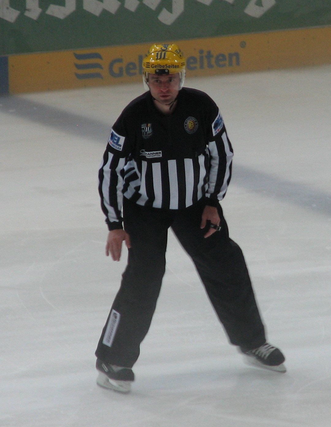 Ice Hockey Linesman of DEL